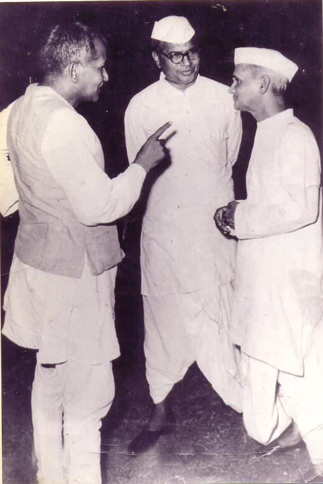 Mool Chand Jain with Lal Bahadur Shashtri and Balwant Rai Tayal